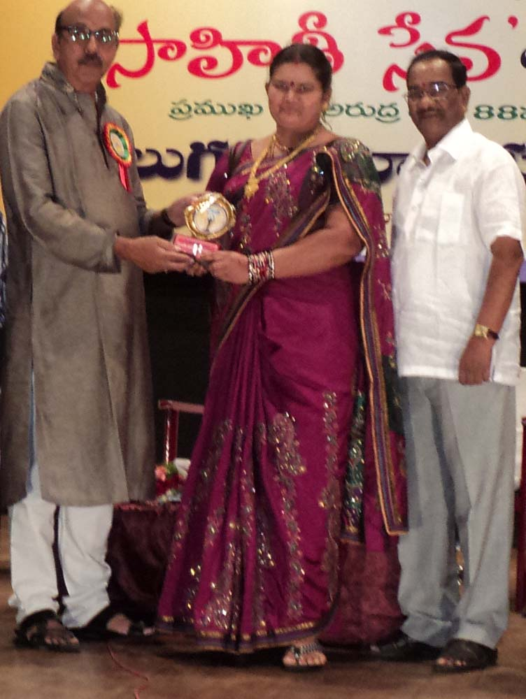 Siri Labala